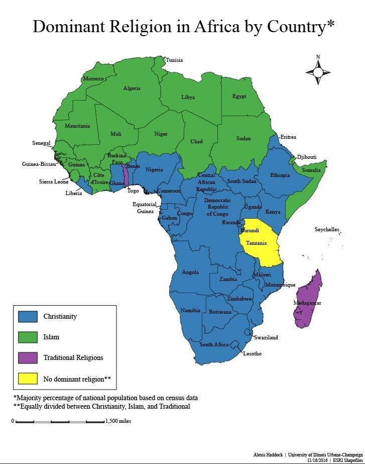 Describes the most common religion in African countries